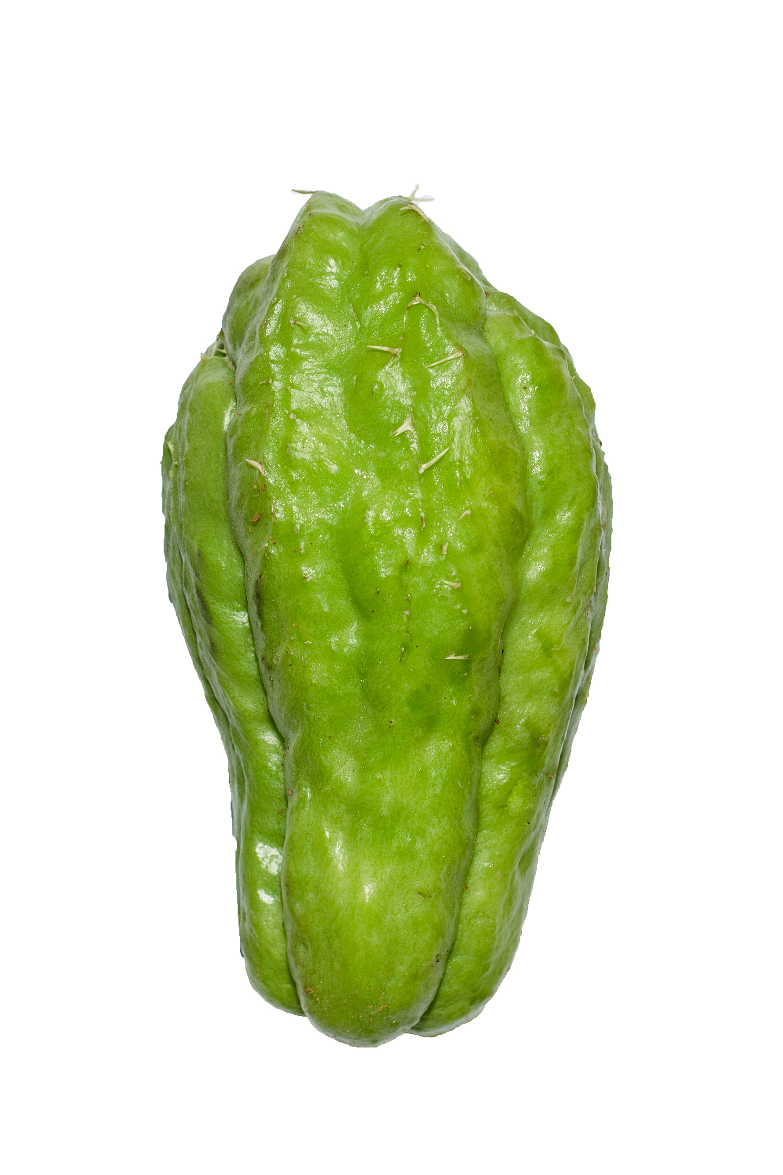 Chayote